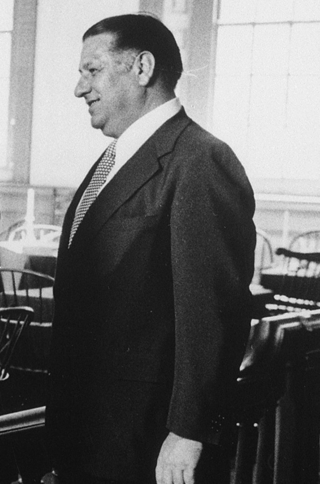 Scope and content: Pictured: unidentified docent, Richard Nixon, Frank Rizzo. Subject: Mayors.